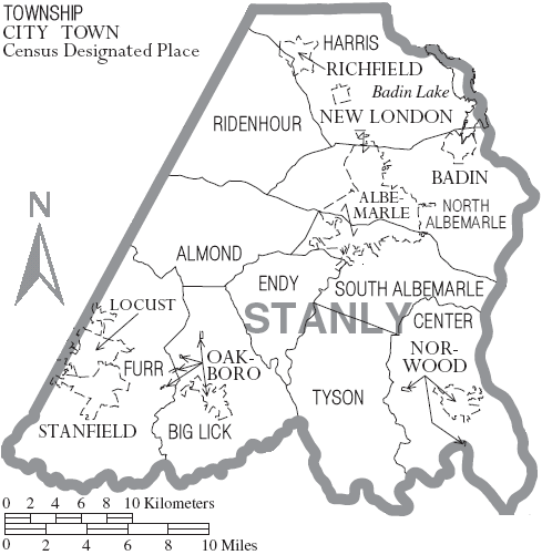 Map of Stanly County, North Carolina, United States with township and municipal boundaries